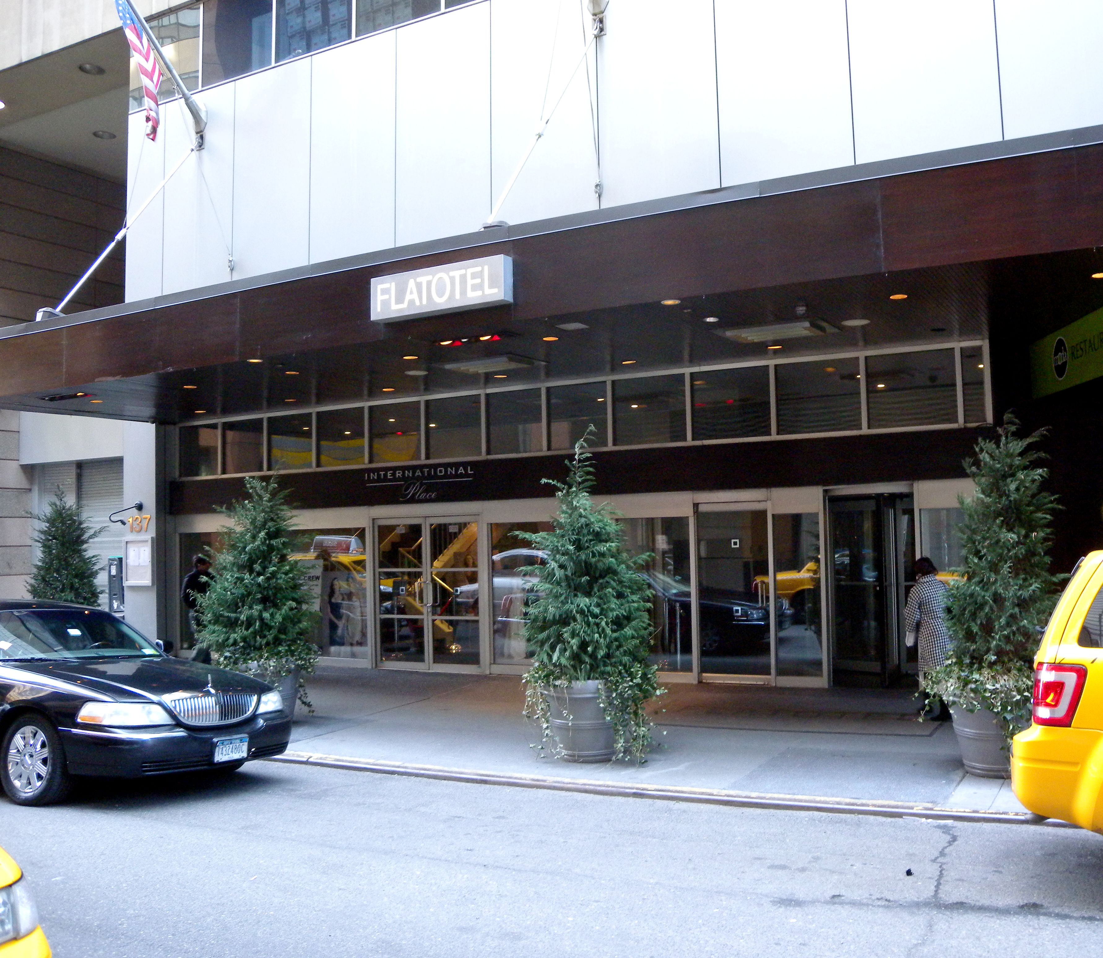 Looking north across West 52nd Street at Flatotel on a sunny afternoon.